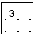 A drawing of a part of a Slitherlink game, showing how a 3 in the corner leads to the outside edges being filled.